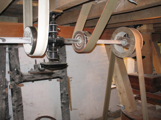 Drive Shaft and Belts, Redbournbury Mill Redbournbury Mill, a water-driven flour mill, lies on the River Ver between St Albans and Redbourn in Hertfordshire. Following extensive restoration the mill is again working and producing organic flour that is sold at the mill and in local shops and markets. The Mill is open to visitors (at the time of writing) on Sunday afternoons.